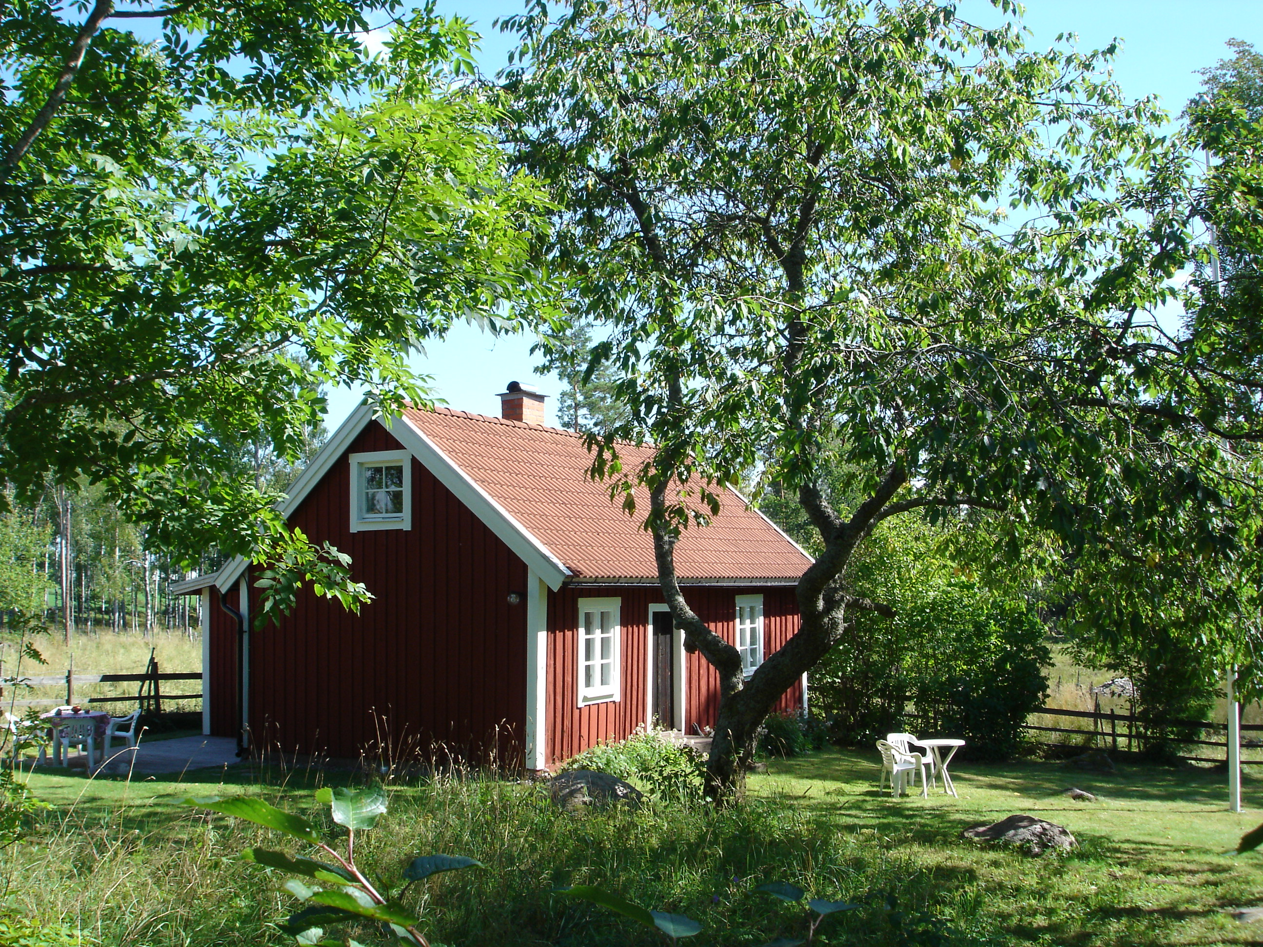 This is the north-west view of the house Fallhult Nymåla.